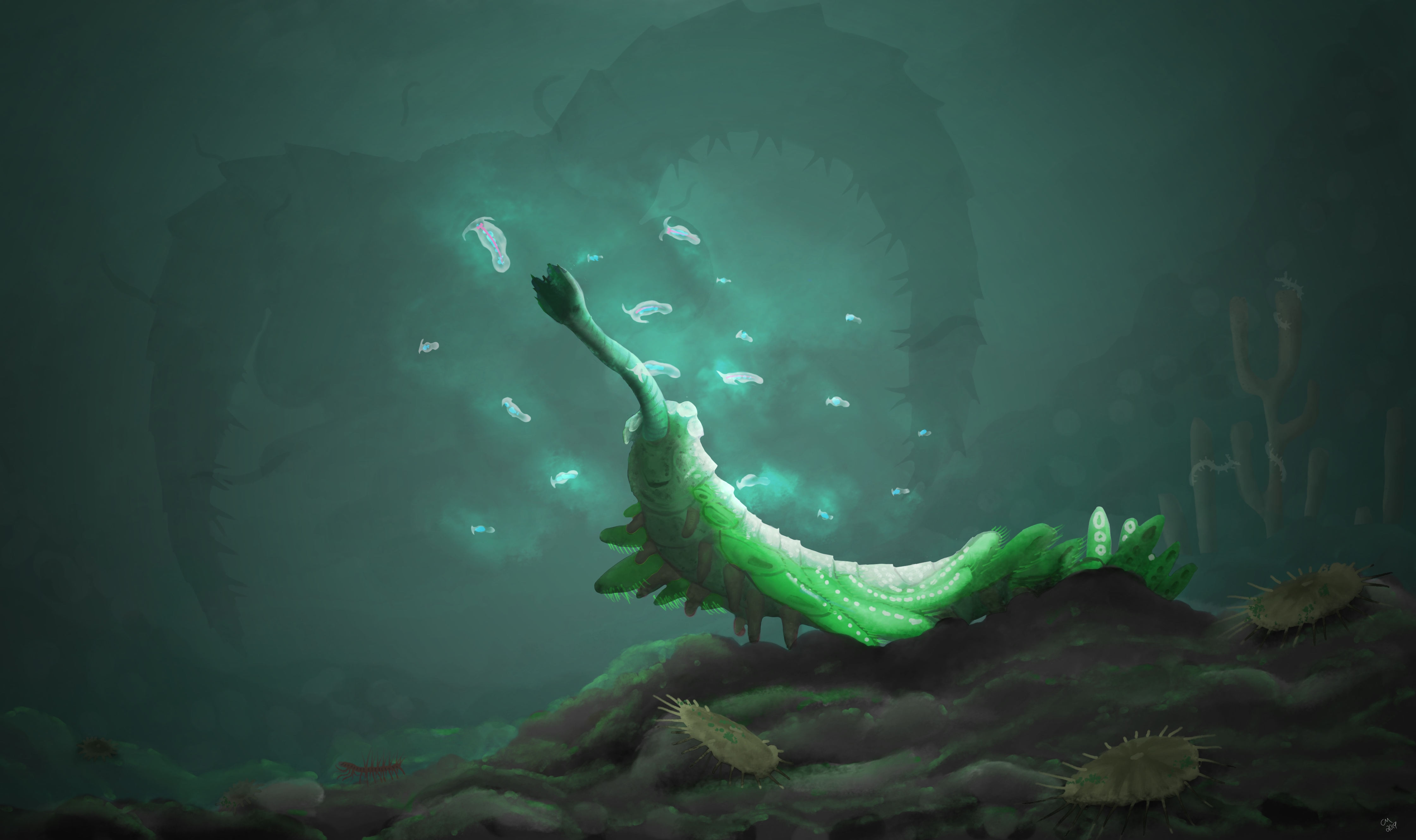 (Drawn for the 2019 Lanzendorf contest by Christian M) “Wonderful Life” Deep in the early Cambrian ocean, below the shadow of the Cathedral Escarpment (A giant rock shelf formation), life goes on as normal. Bioluminescent Amiskwia swim in groups, trying to escape the carnivorous Opabinia. It can walk on the sea floor with legs, or swim through the water with undulating fins. Among the algae, strange sponge relatives called Choia exist, holding themselves just above the rock surface. Hallucigenia sparsa feed on the marine snow that falls, catching it on hairy tentacles and shoving it in their mouths. Aysheaia feed on sponges called Vauxia, which grow on the rocky substrate. Preying on hard shelled animals like trilobites, using its armoured antennae to break open armour, Anomalocaris dwarfs everything. It is followed closely by a shoal of Pikaia, which survive by feeding the scraps left behind when Anomalcaris finishes messily ingesting it’s prey with a horrifying circular mouth part. It can see Opabinia with the best eyes that would ever evolve for millions of years, only rivalled by dragonflies and possibly griffinflies. The Opabinia, though it has 5 compound eyes, still has a more limited resolution, and doesn’t notice the Anomalocaris swimming towards it through the gloom of the depths.